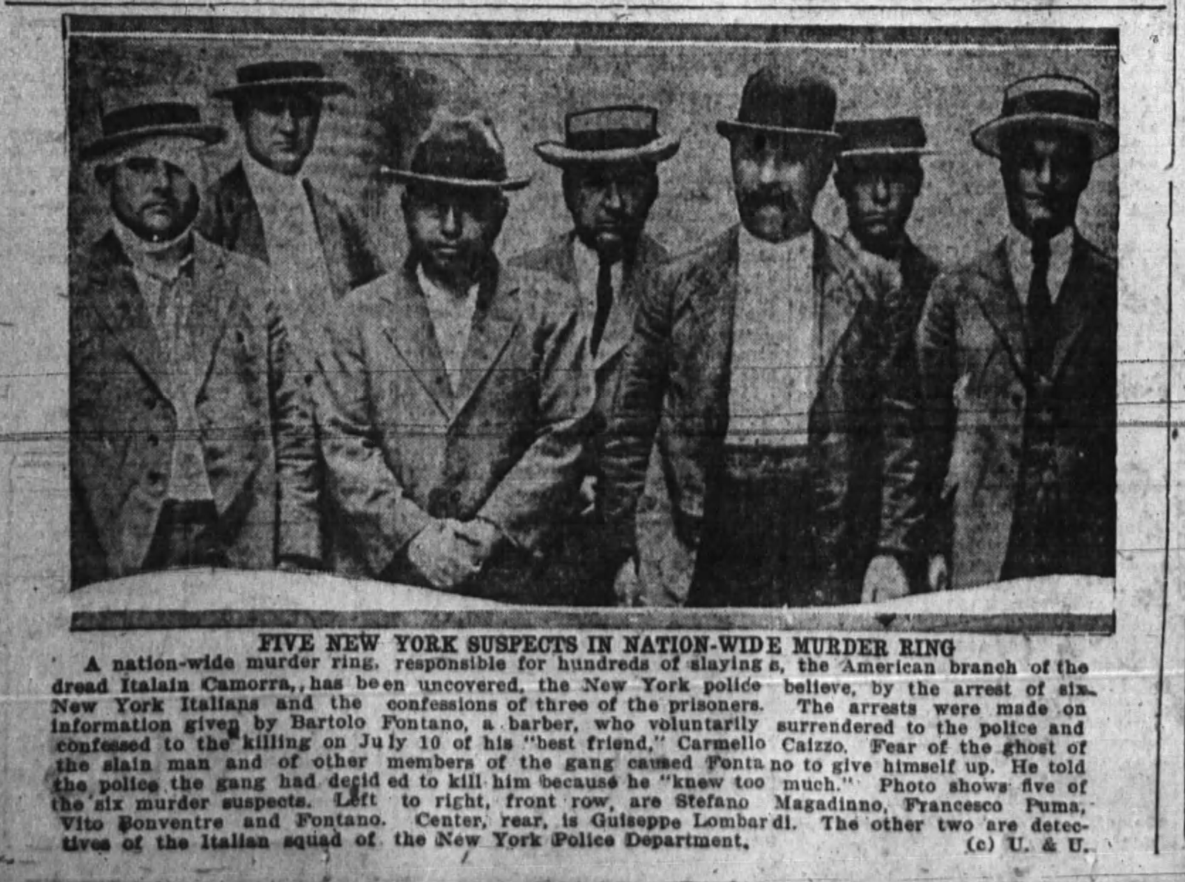 Police lineup of five men arrested in the Good Killers case of 1921.